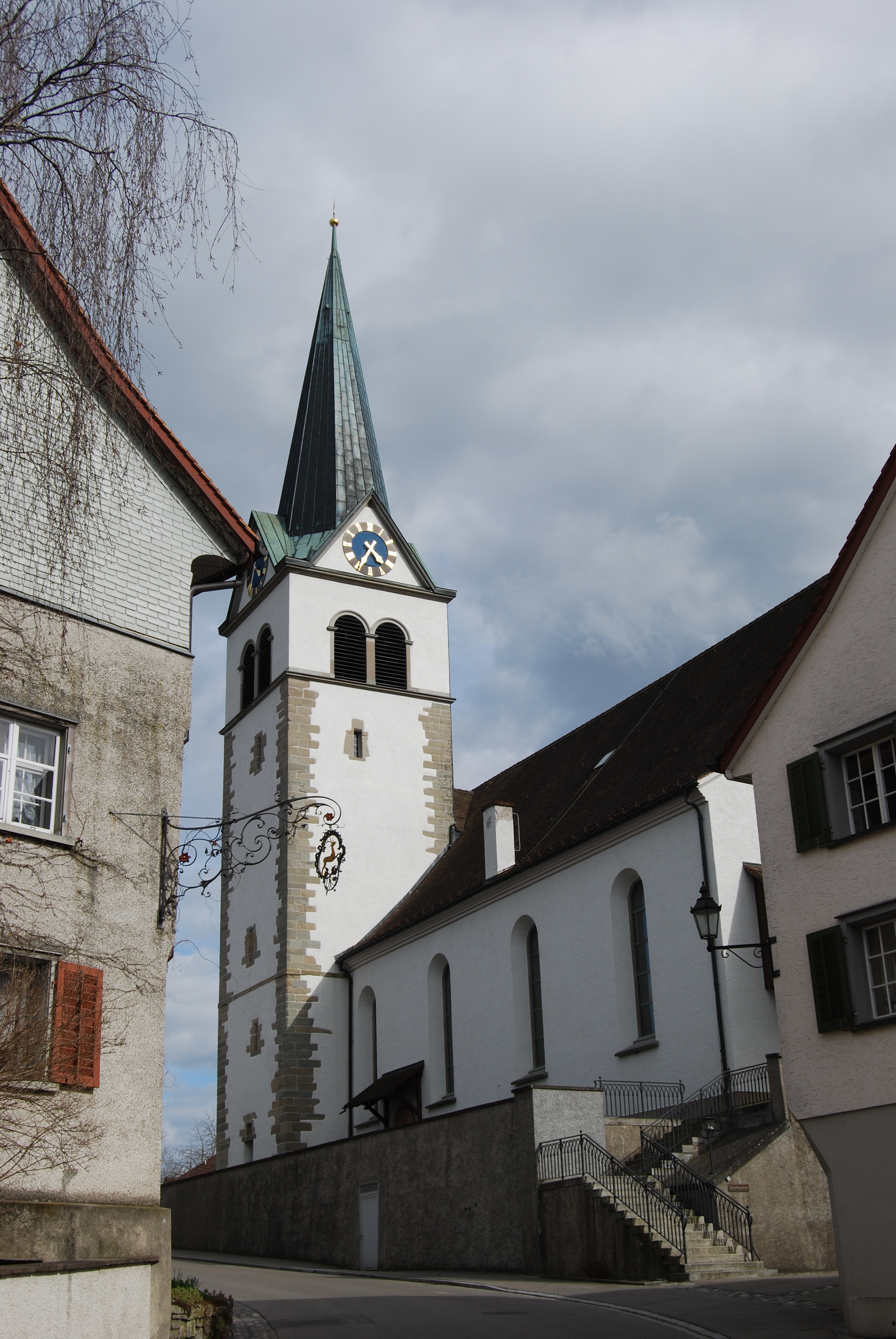 Protestant church of Sulgen, canton of Thurgovia, SwitzerlandEsperanto: Reformita preĝejo de Sulgen, Kantono Turgovio, Svislando